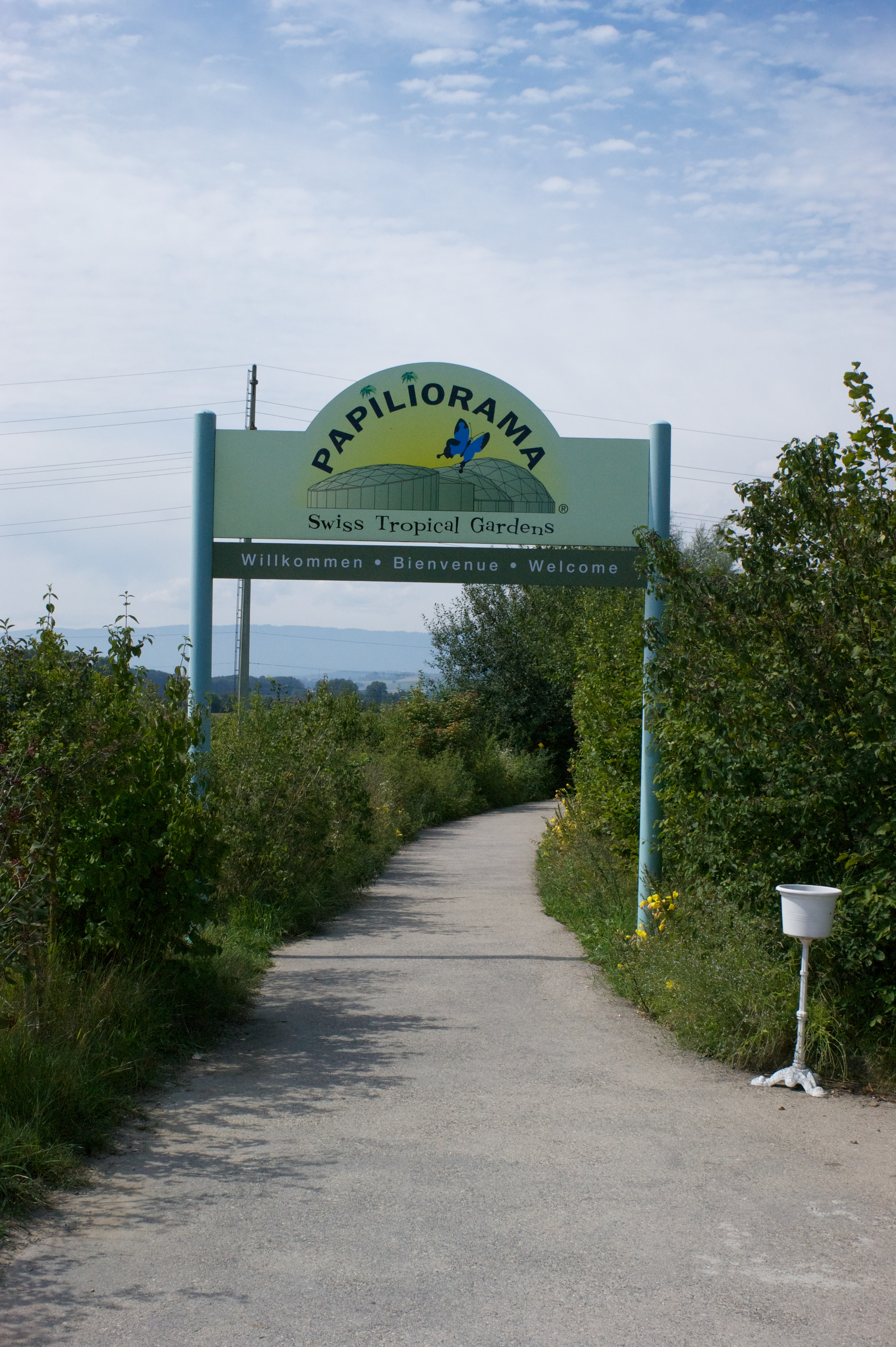 Papiliorama Kerzers, Switzerland